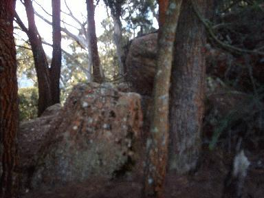 picture of summit track at Mount Kembla showing boulders